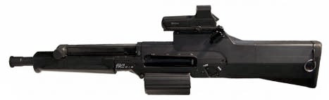 Neopup PAW-20 Hand-held, Semi-automatic Infantry Weapon, 20 mm grenade launcher